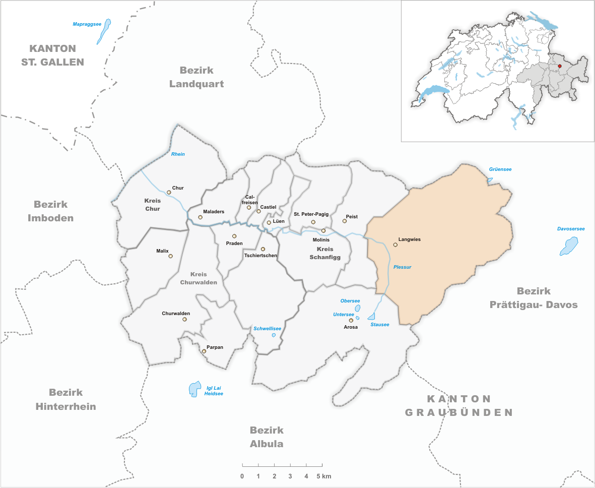 Municipality Langwies